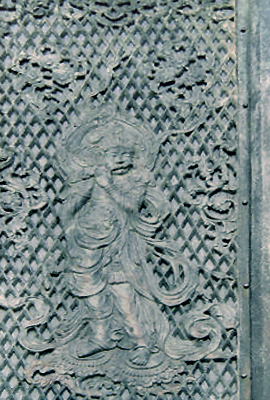 Krishna in Todaji temple. Relief.